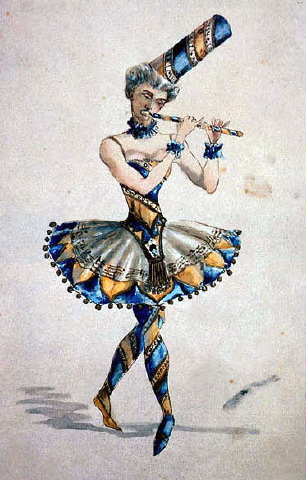 Vzevolozhsky's costume sketch for The Nutcracker.